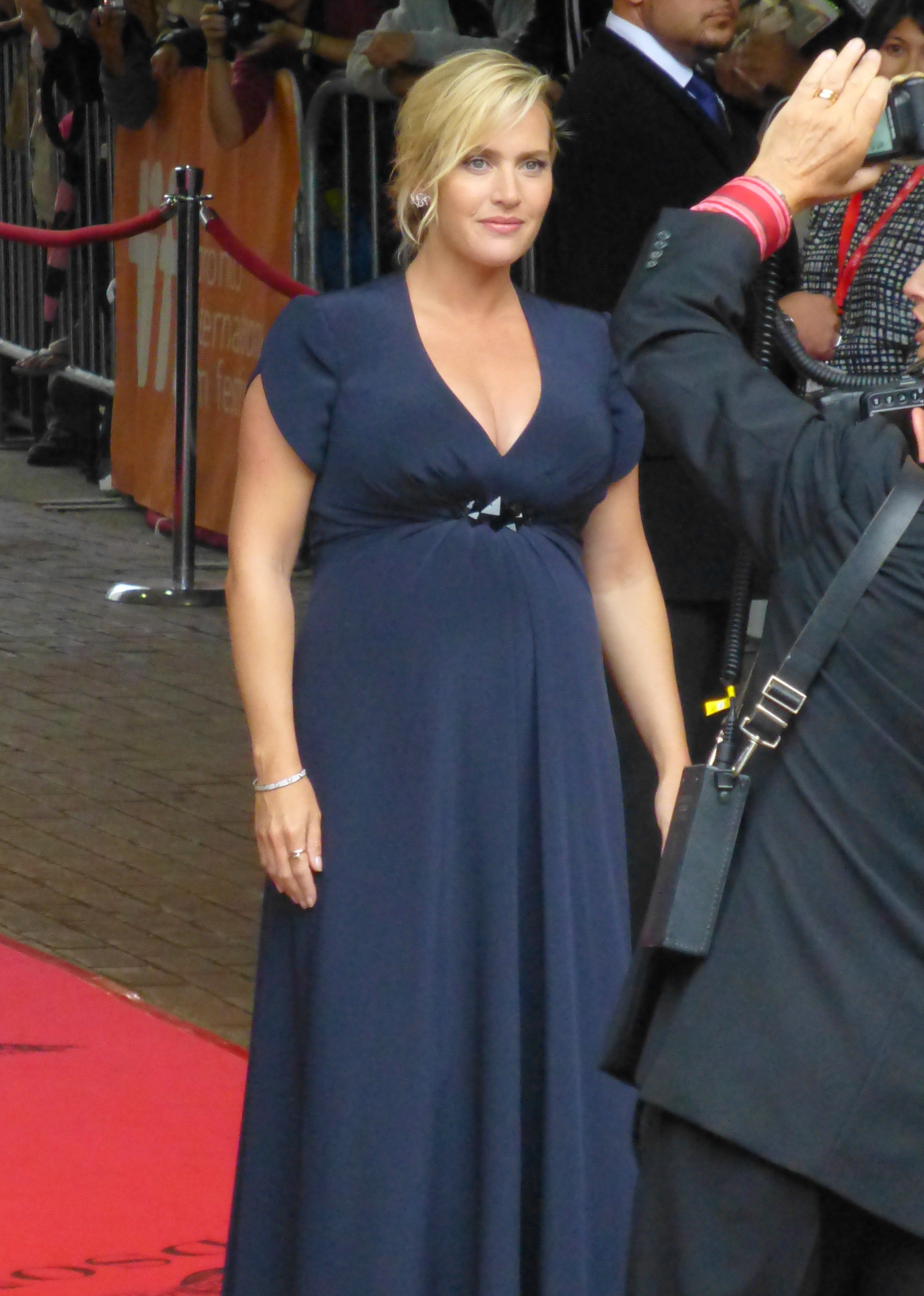 Kate Winslet at the premiere of Labor Day, Toronto Film Festival 2013